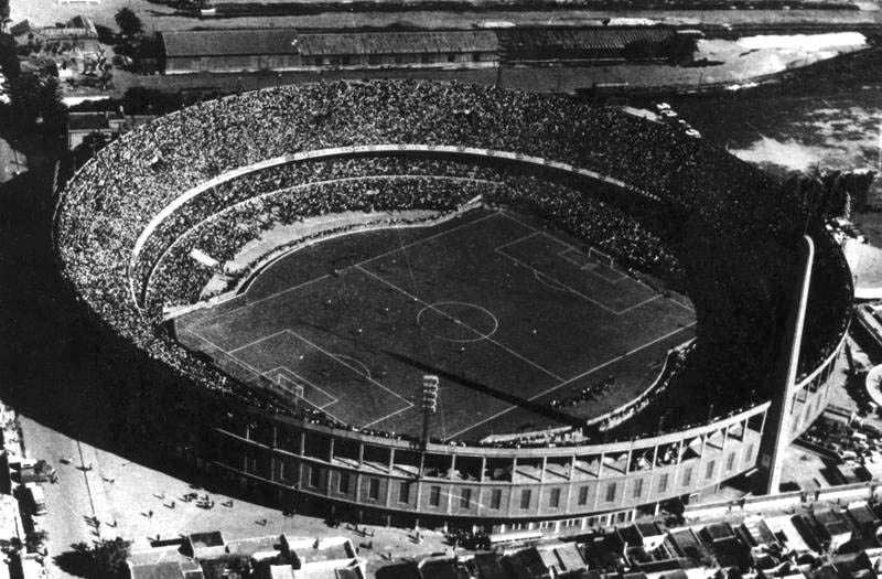 See copyright information below